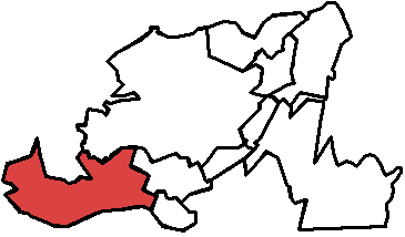 Maps based on images by Earl Warren, from the 2007 elections